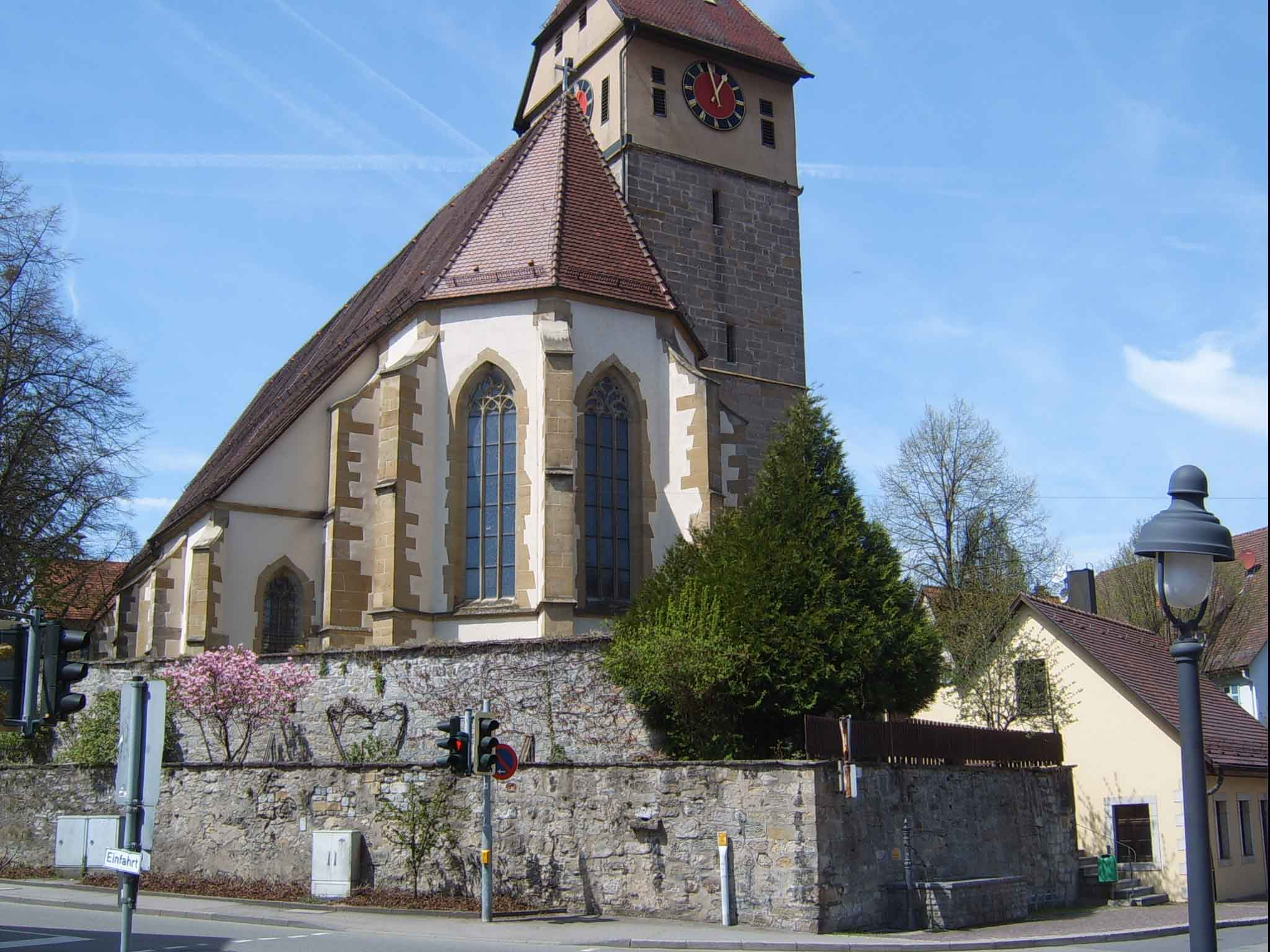 Magstadt (Church-Castle); District of Böblingen; Federal State of Baden-Württemberg; Germany